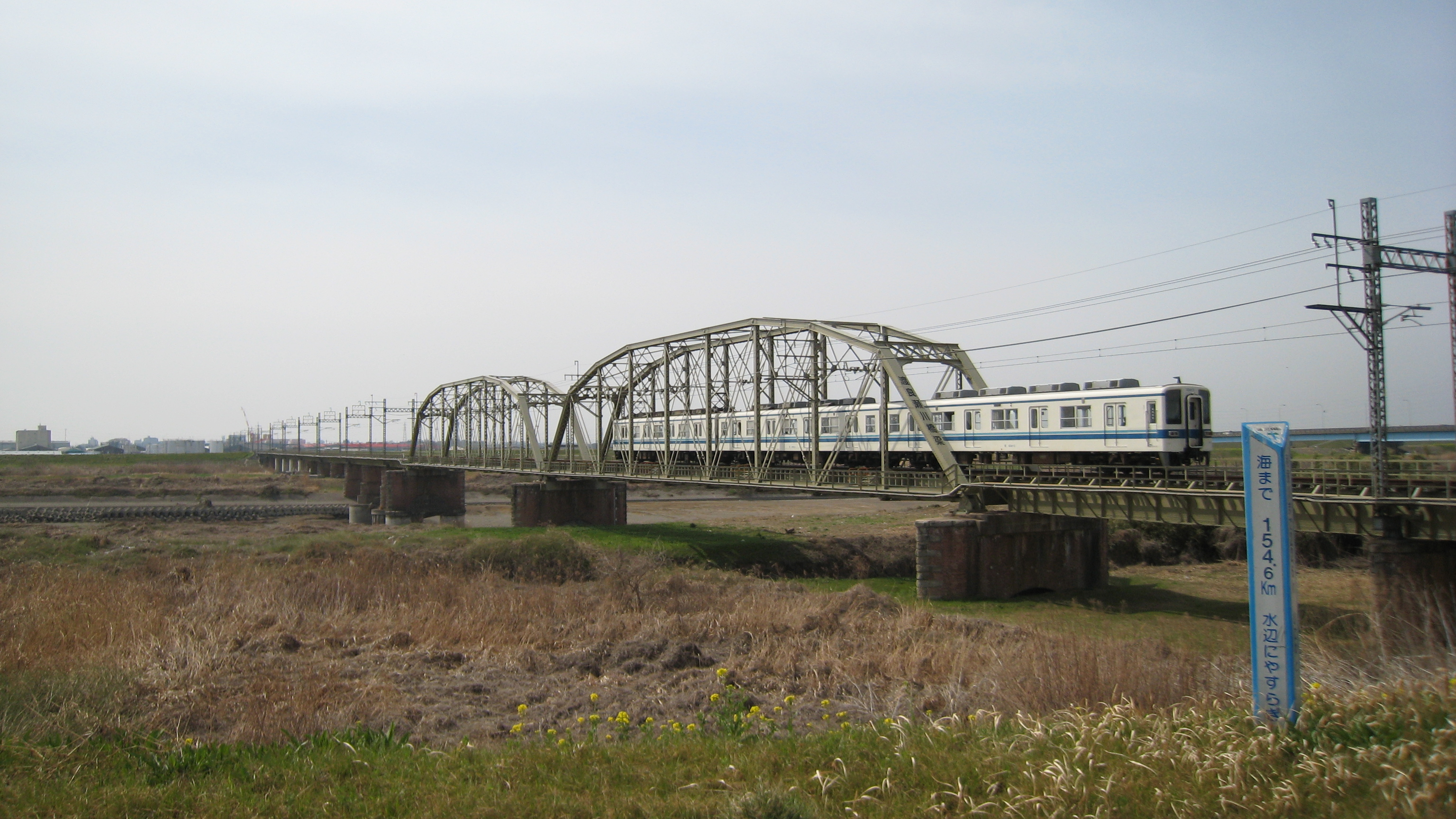 A Tobu 850 series EMU crossing the Watarase River on the Sano Line in Sano, Tochigi Prefecture, Japan